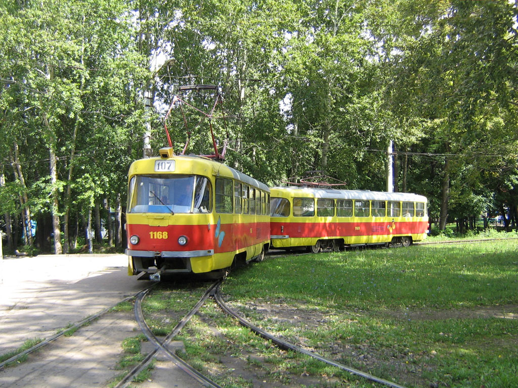 Two-car tram train on the susurban tram line 107, near the Victory park